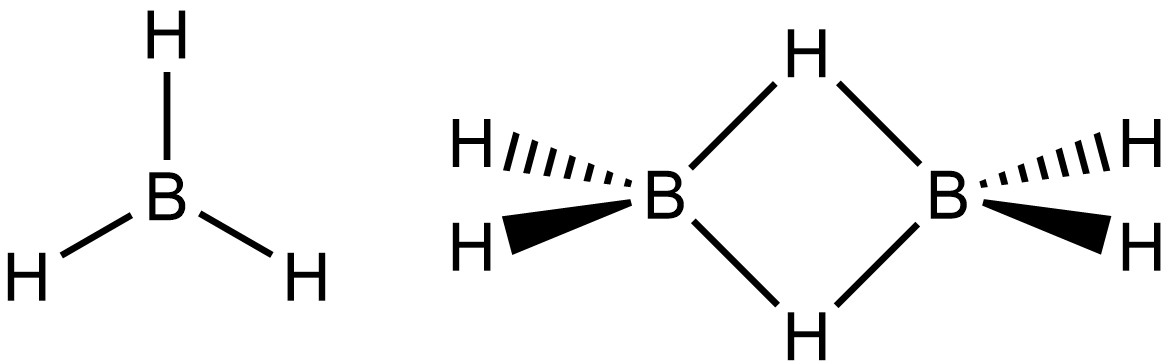 A comparison of the chemical structures of Borane and Diborane